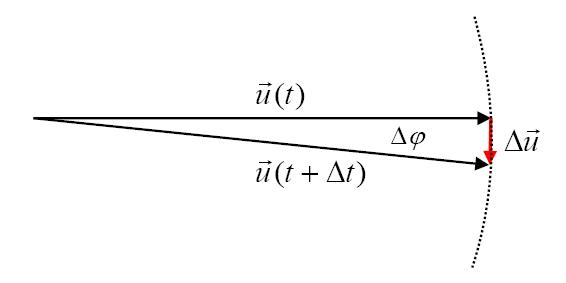 Explaining unit vector derivative